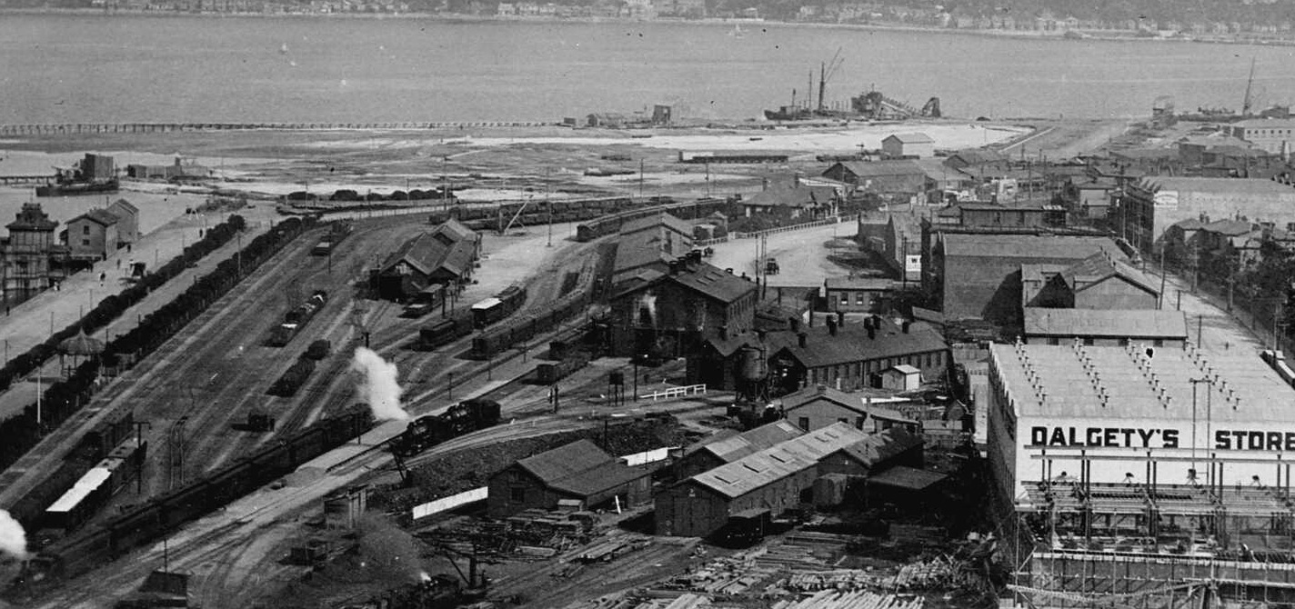 Thorndon railway station, Wellington, New Zealand. about 1905. Left to Right Thorndon baths, Thorndon Esplanade linked by Davis Street extension (beyond the station) to Thorndon Quay